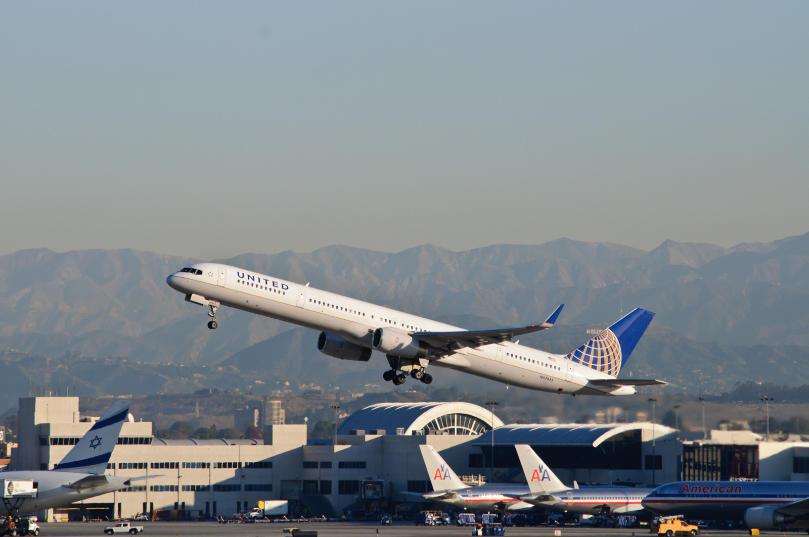 Operating United 1744 to Houston Intercontinental, the former home hub of Continental, and now that Continental and United are merged, the largest hub in the combined airline. 30 November 2011 marked a milestone in the United-Continental merger, where the two airlines operate under a single Air Operating Certificate. Although it is the old Continental's certificate, the name, and the air traffic control callsign, are United. Continental now no longer exists as a separate airline, even though Continental Airlines' separate pilot union contract and reservation system still remain. Delivered in January 2004 new to Continental, this is one of the last 757s built. Continental's decision to convert its 757-300 outstanding orders to the more fuel-efficient 737-900ERs was a key reason for Boeing killing the 757. N57855, Boeing 757-300 (ex-Continental)